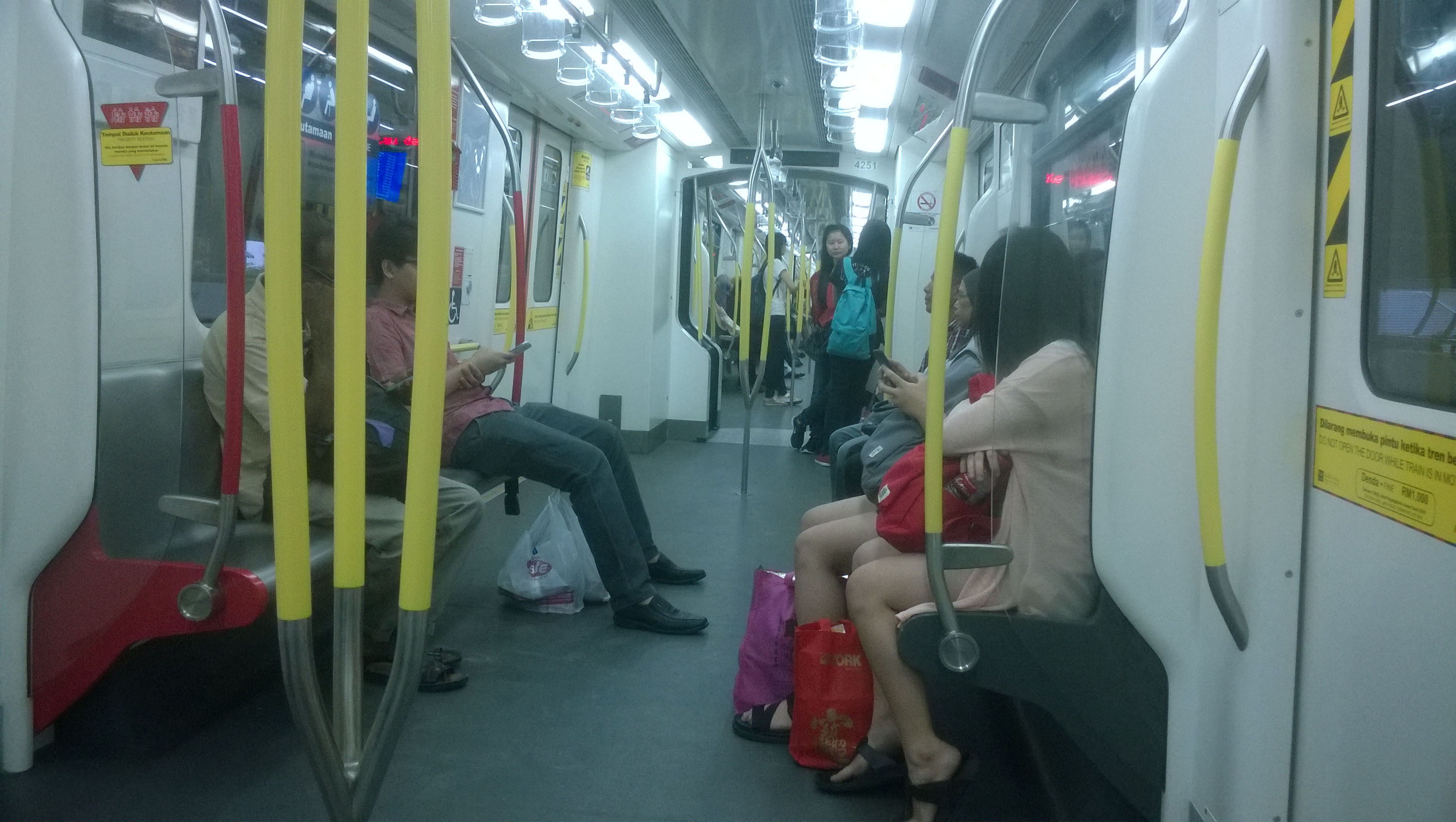 The interior of the AMY train used for Ampang and Sri Petaling Lines.